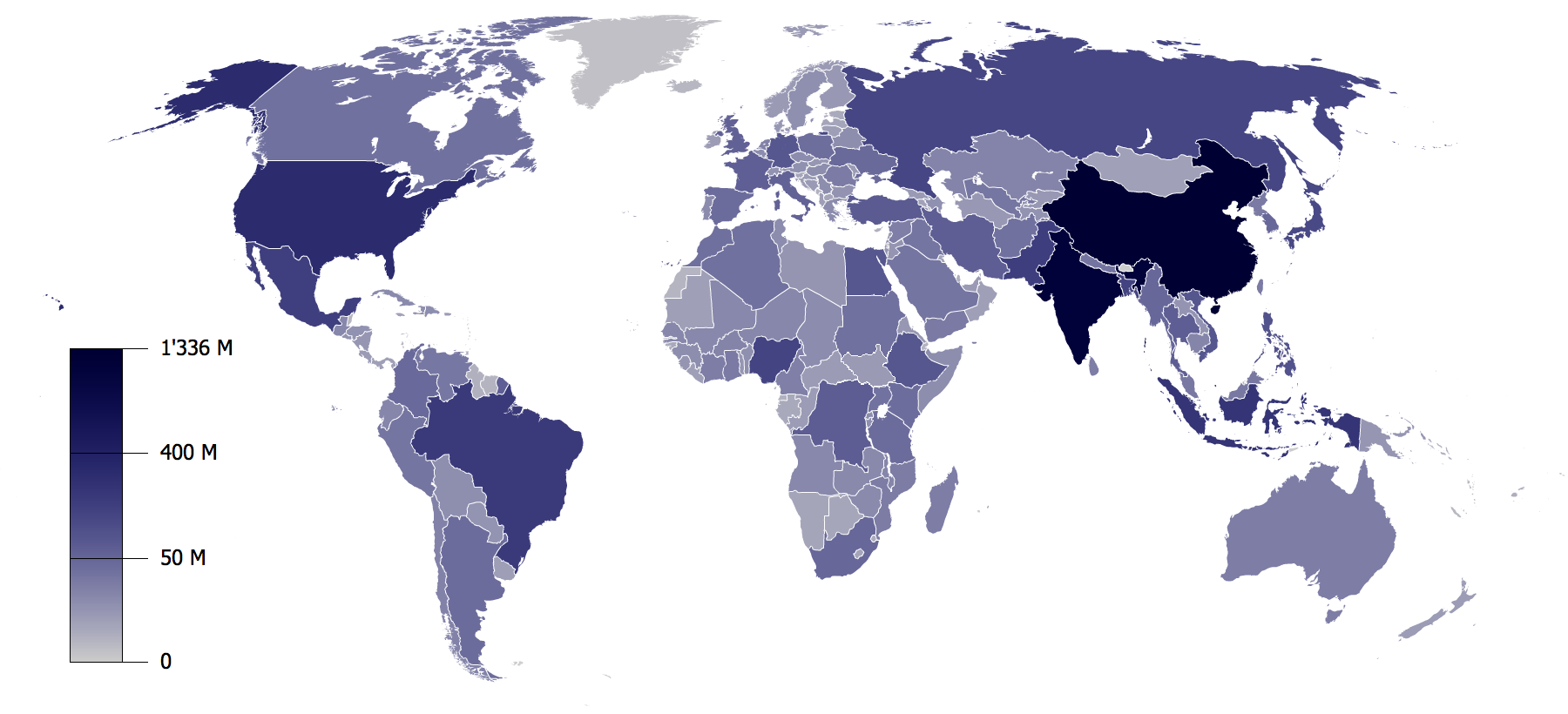 Added South Sudan